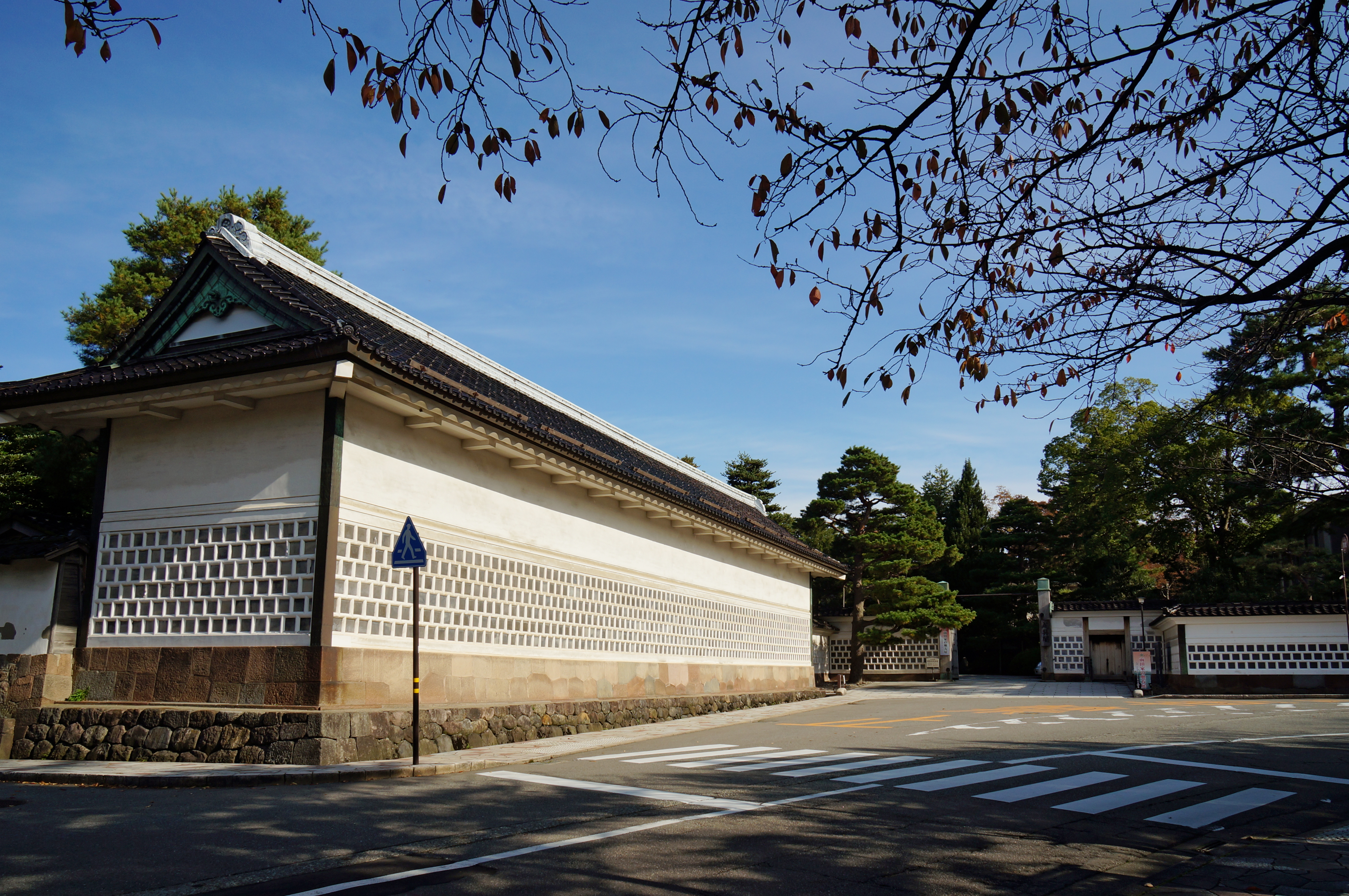 At Seisonkaku in Kanazawa, Ishikawa prefecture, Japan.